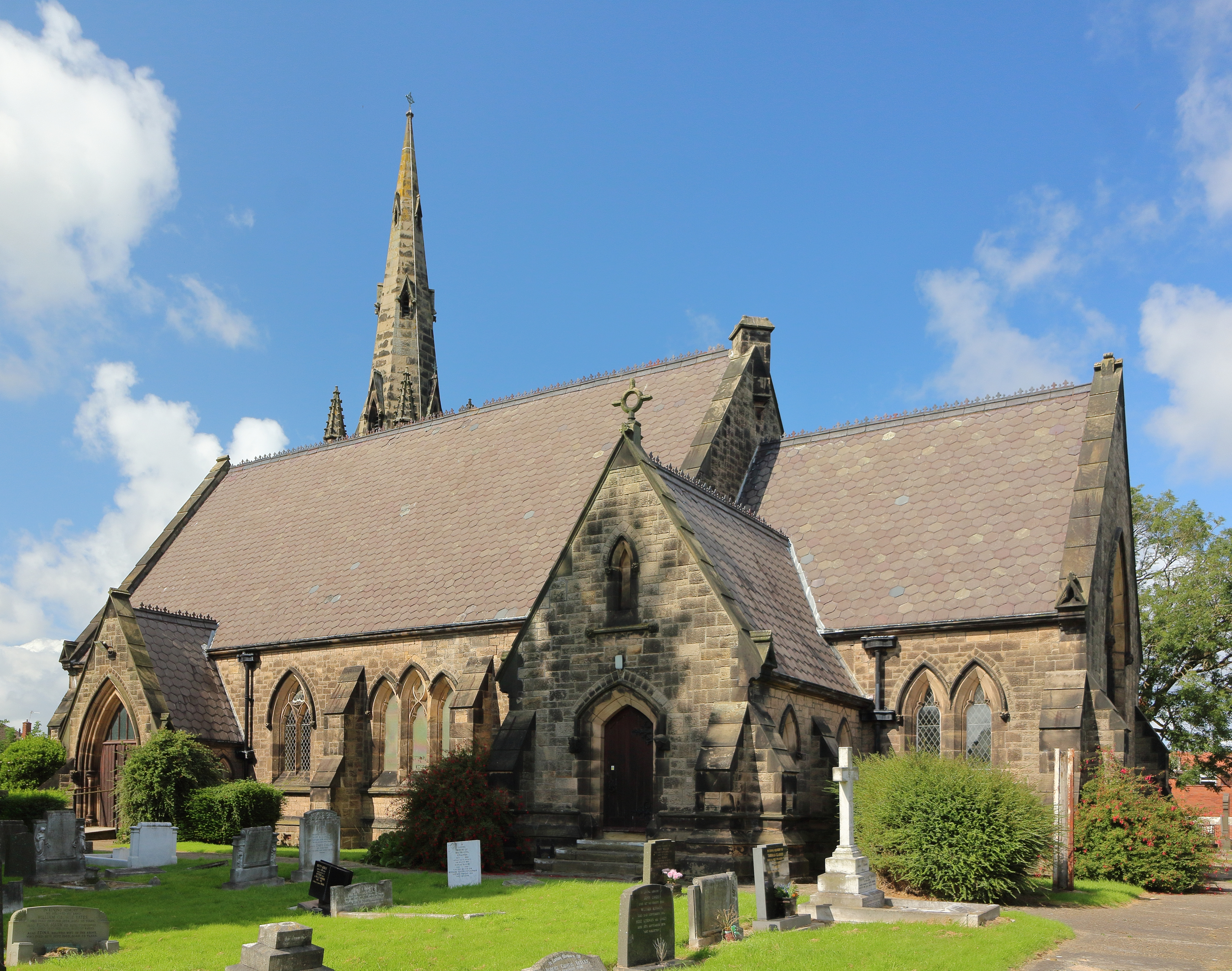 Grade II listed church on Upton Road, Moreton, 1862-3, by Cunningham and Audsley. Seen from the southwest corner of the churchyard.